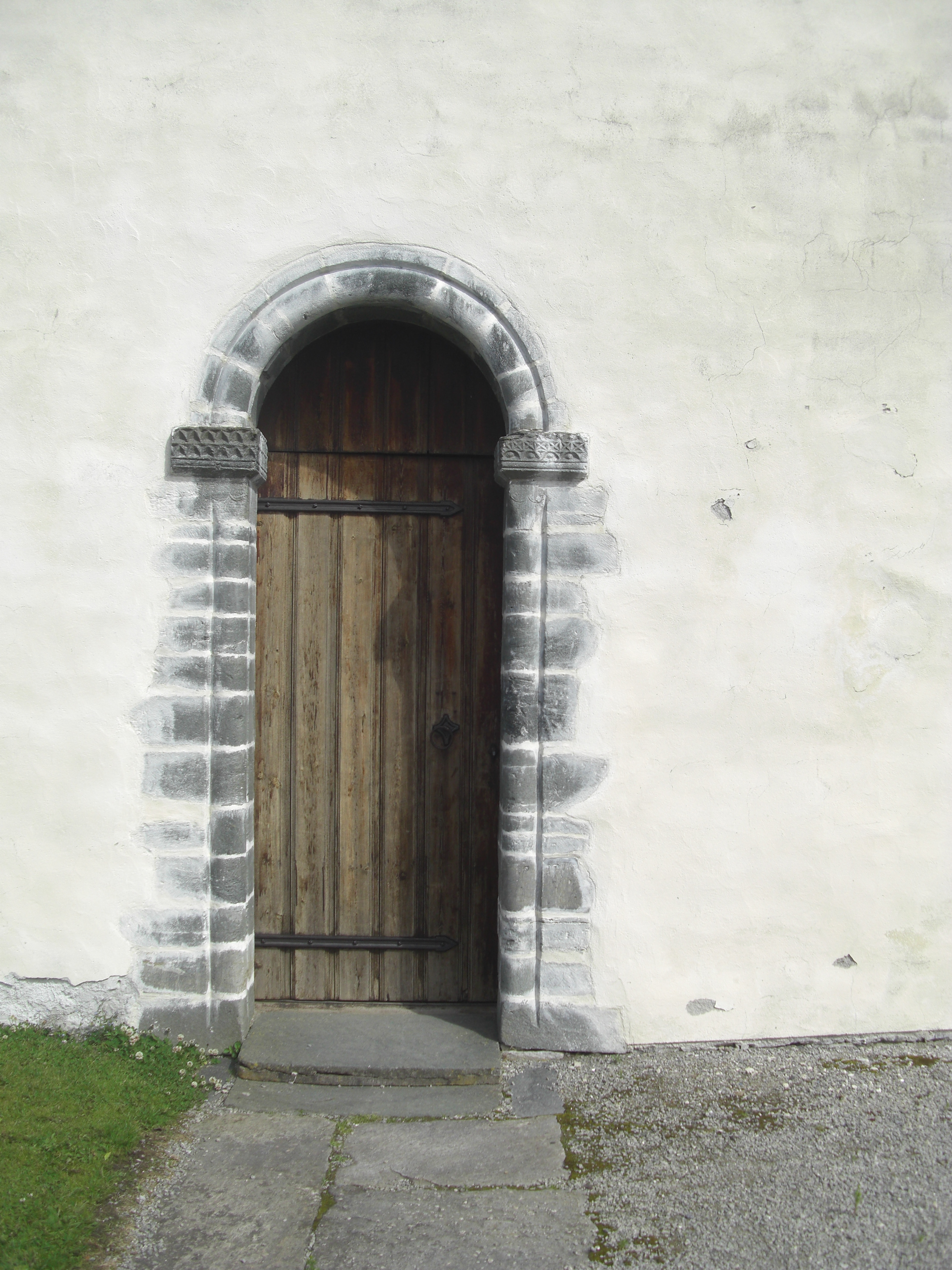 Sørbø vestportal